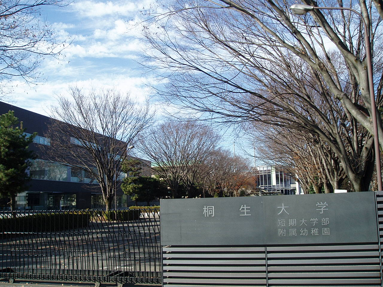 The main entrance of Kiryu University located in Midori (formerly Kasakake), Gunma, Japan.